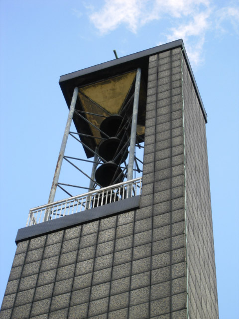 St Boniface's Church, Whitechapel Showing the very distinctive tall slim campanile of this post-war German Catholic church designed by D. Plaskett Marshall & Partners. The church is located on the corner of Adler Street and Mulberry Street.